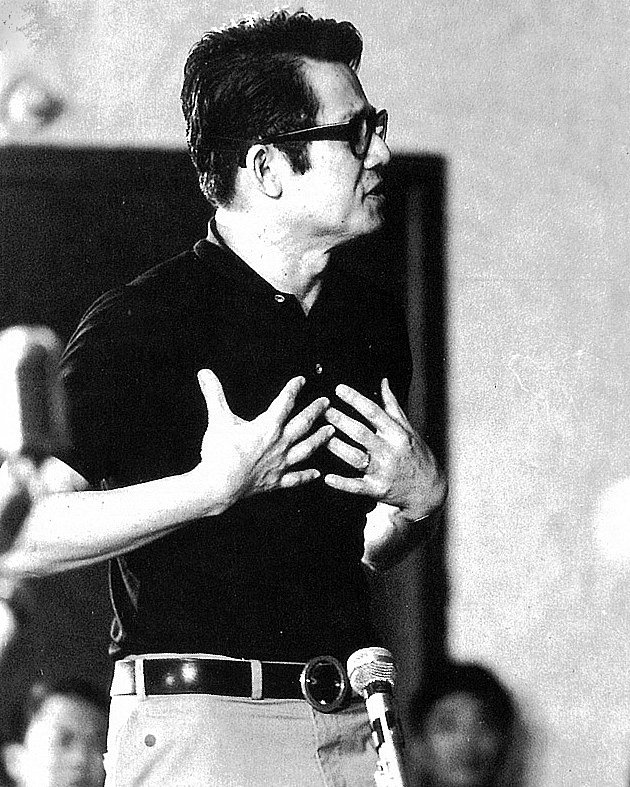 Benigno Aquino Jr. delivering a prepared statement against the regime of President Ferdinand E. Marcos.